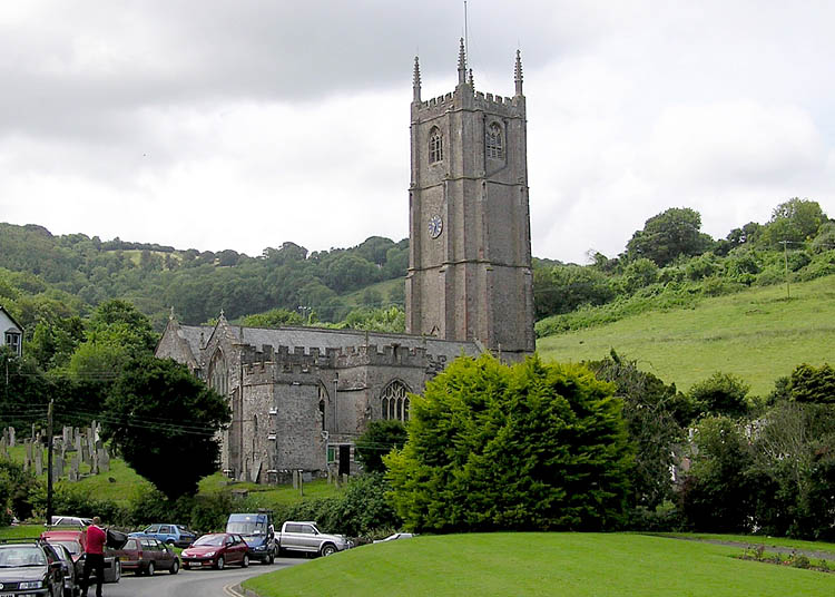 Combe Martin parish church (St Peter ad Vincula), North Devon, England (”ad Vincula” means “in chains”). The chancel, nave and south transept are thought to have been in existence by the year 1200. The Bishop of Exeter is known to have visited the church in 1260. Taken by Adrian Pingstone in July 2004 and released to the public domain.